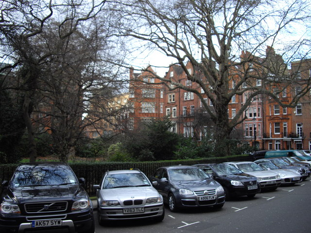 Parked cars in Hans Place Rich pickings for the ever present parking warden here.